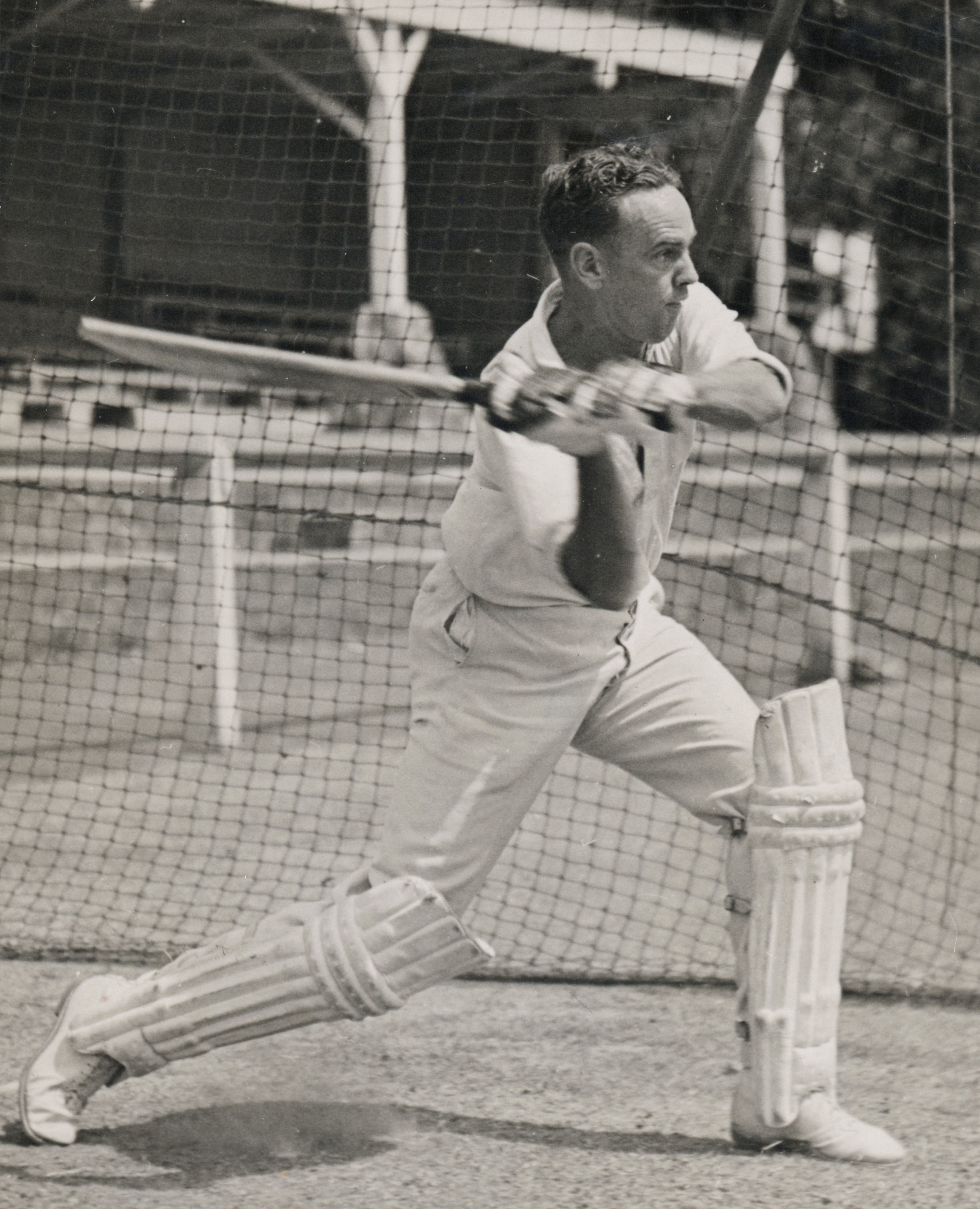 Australian cricket captain, Ian Johnson, bowling, batting and fielding